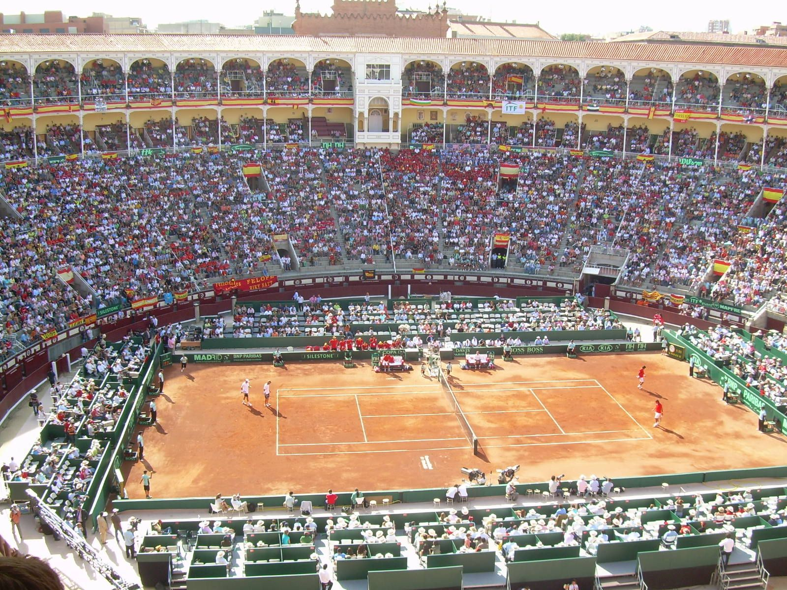 Davis Cup semifinals between Spain and USA in Las Ventas bullring. September 08.